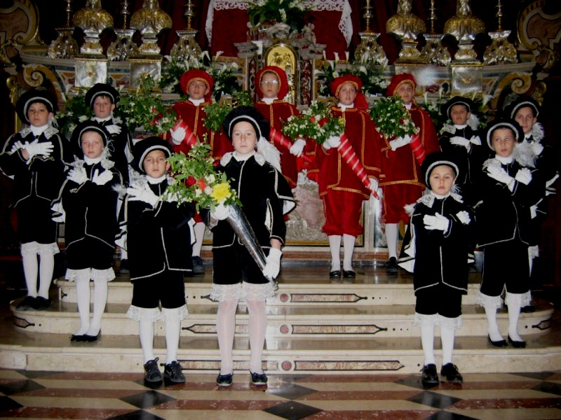 the Pages